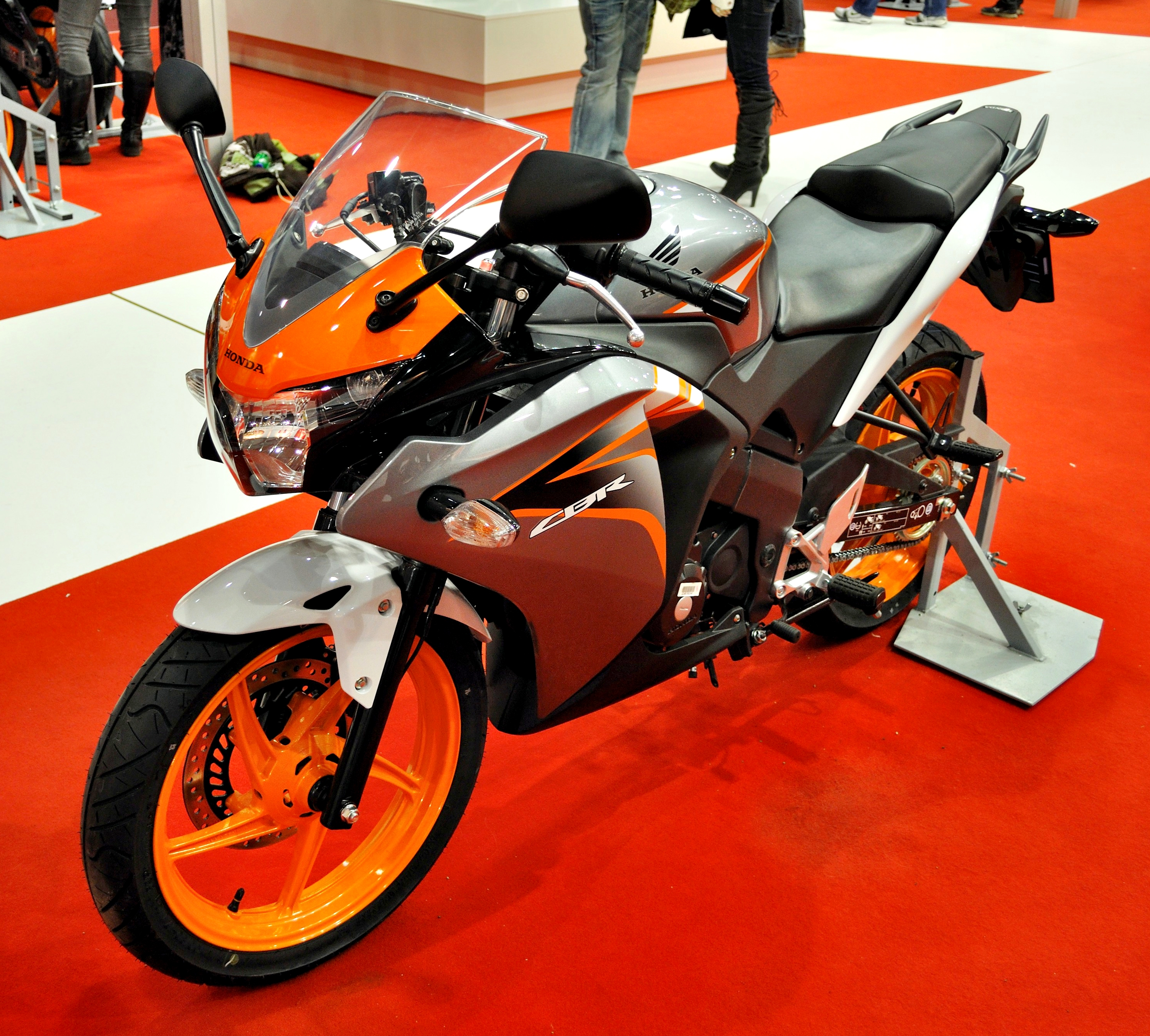 2011 orange gray Honda CBR125R Motosalon, Prague, Czech Republic